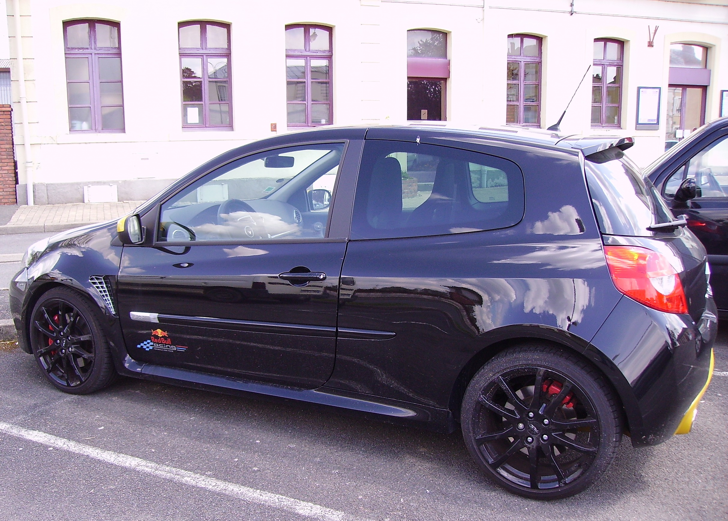 Renault Clio III RS, limited edition Red Bull Racing RB7.